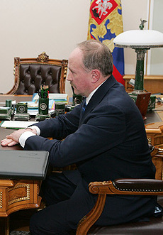 NOVO-OGARYOVO. With the Plenipotentiary Presidential Representative in the Far Eastern Federal District, Oleg Safonov.